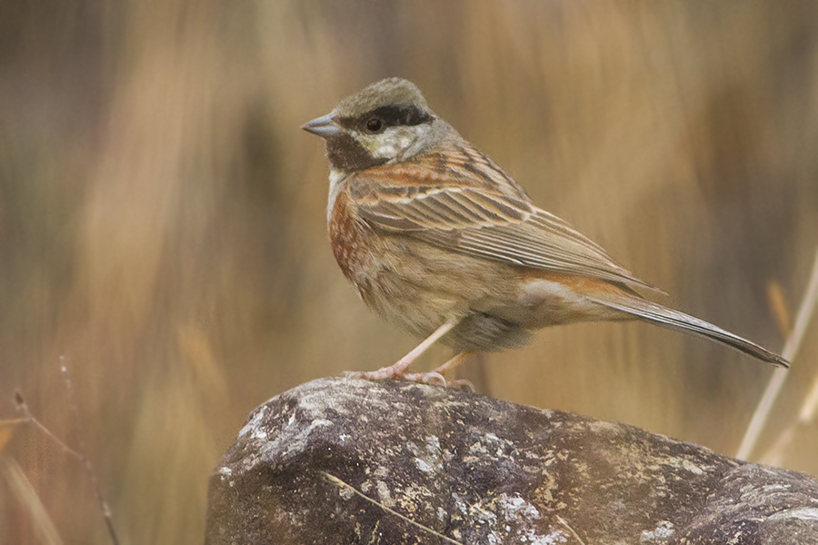 The specie White-capped Bunting had been photographed at Nalni, Uttarakhand, India on 31.01.2015. during the bird photography trip of GoingWild.